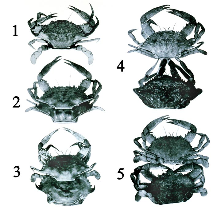 Ecdysis (moulting/molting) of crab Callinectes sapidus.